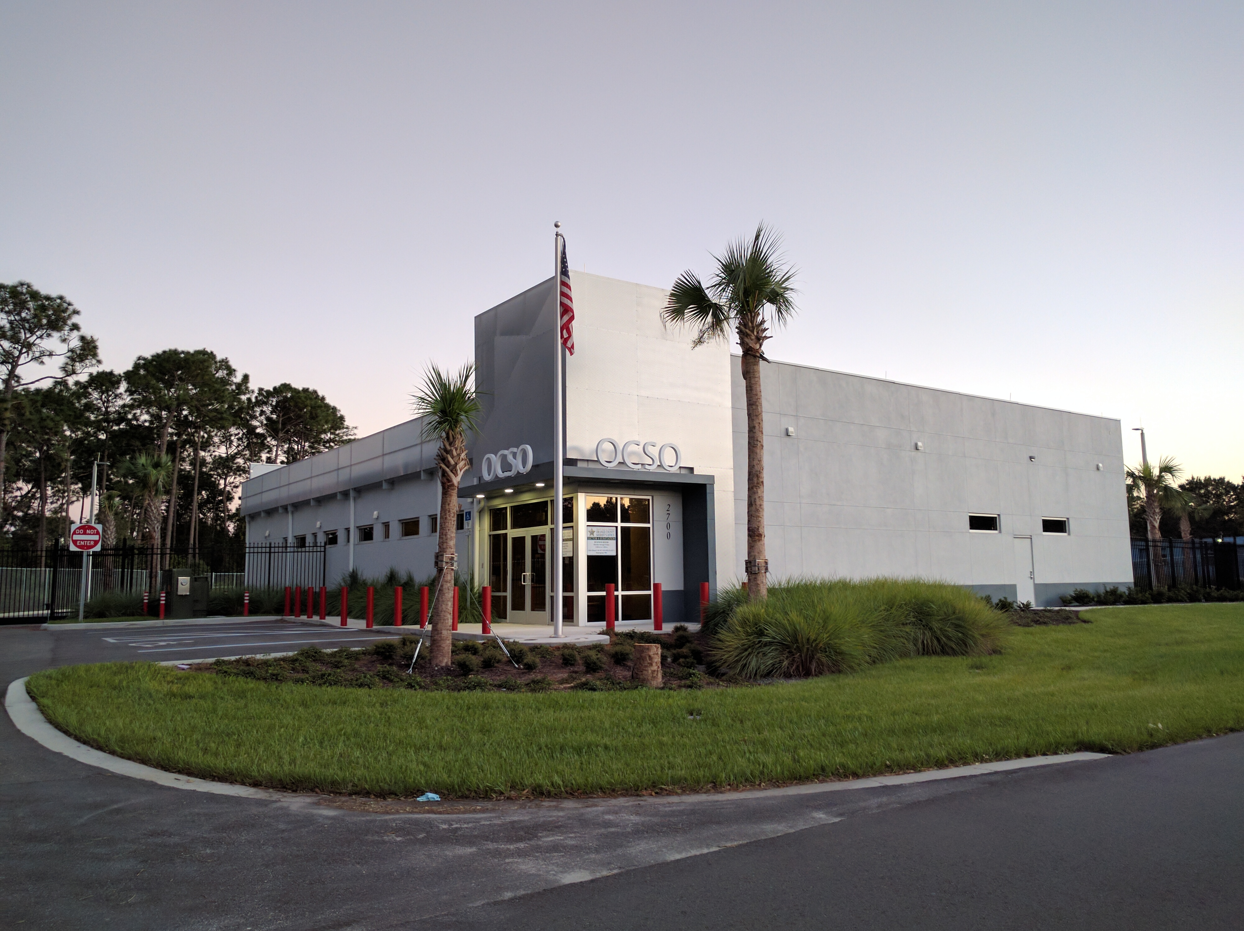 Near Disney Springs